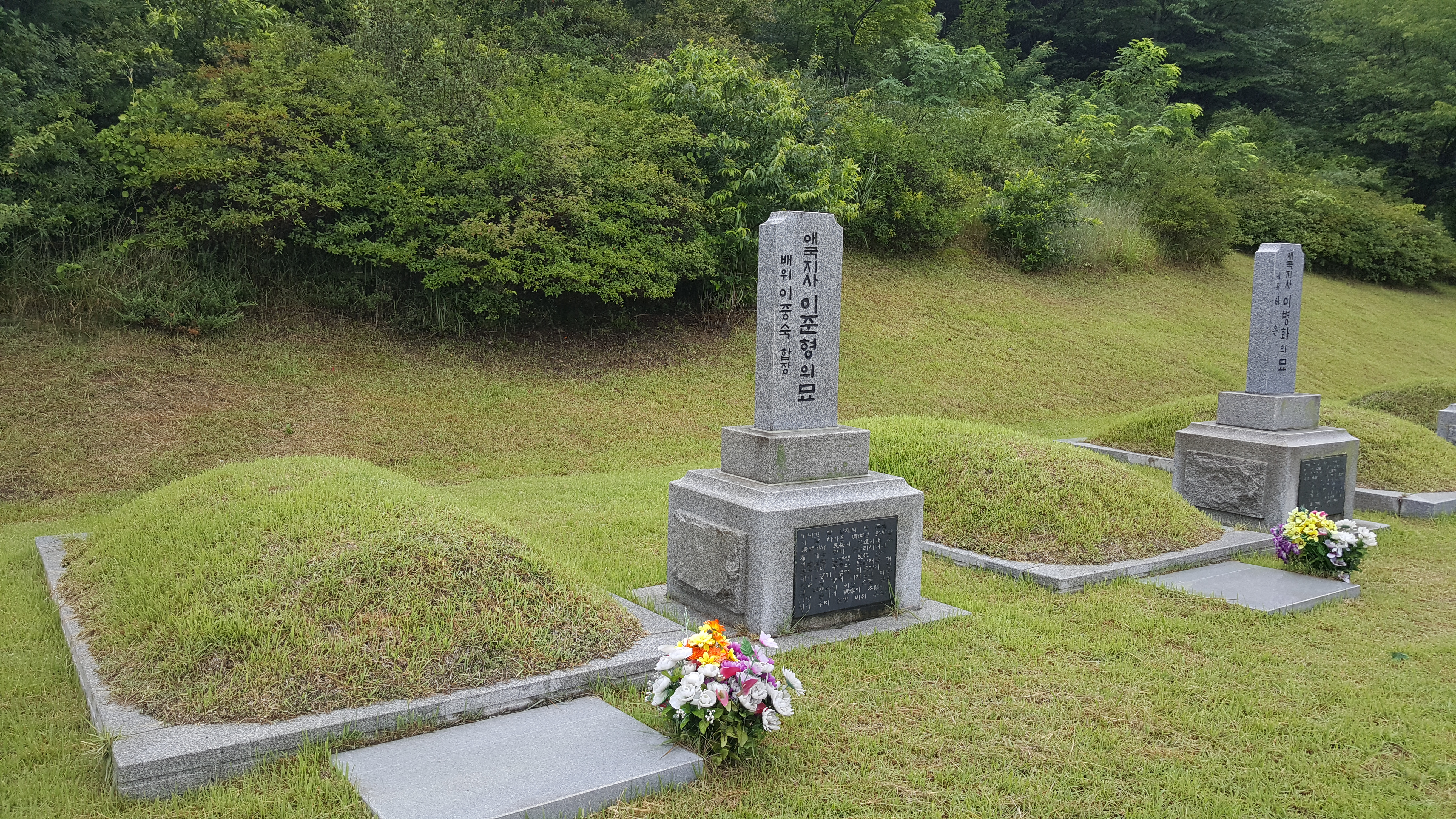 Memorating Patriot Lee's